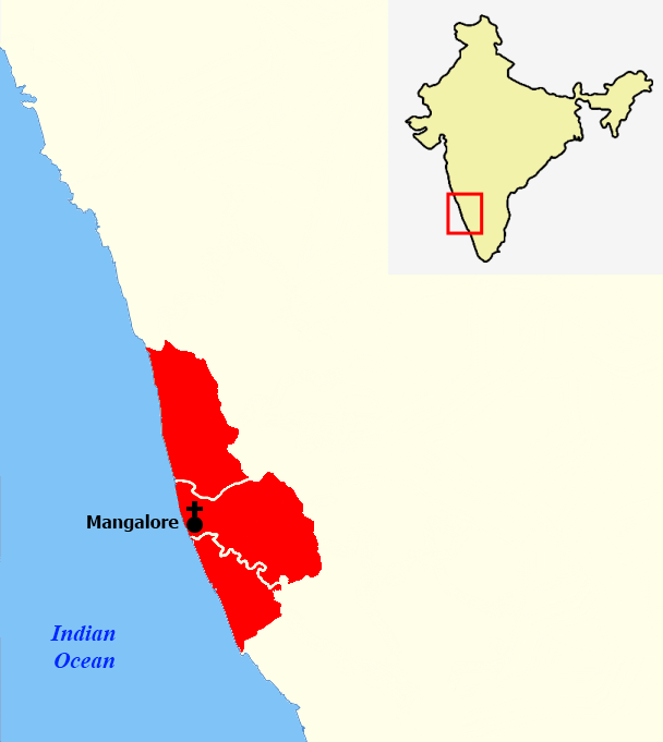 Locator map of the Catholic Diocese of Mangalore.